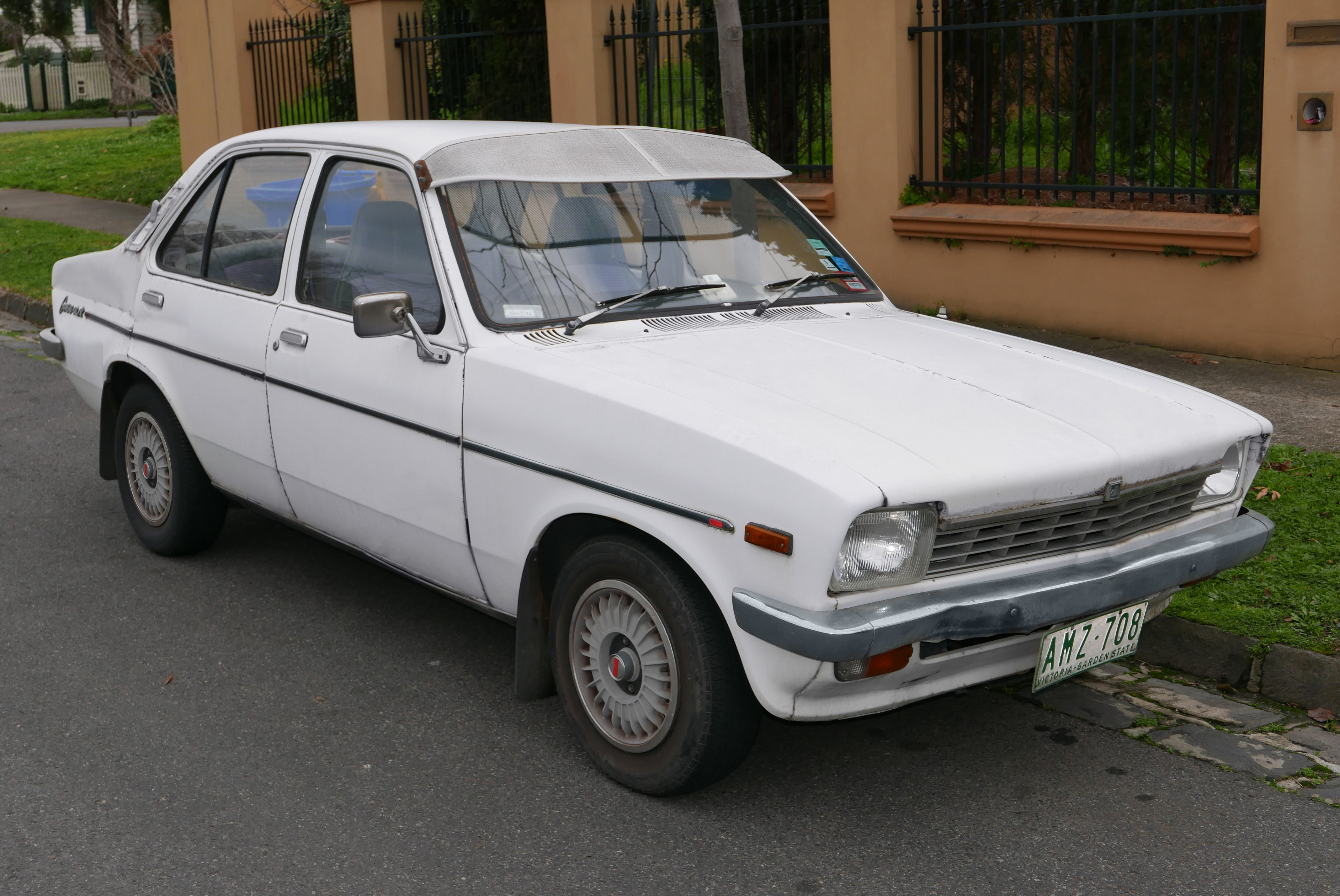 1979 Holden Gemini (TD) SL/X sedan. Photographed in Kew, Victoria, Australia. Vehicle registration enquiry results Jurisdiction Victoria Registration AMZ708 Chassis code ATD32769B Engine code 887999Q Compliance date 1979-05 Year of manufacture 1979